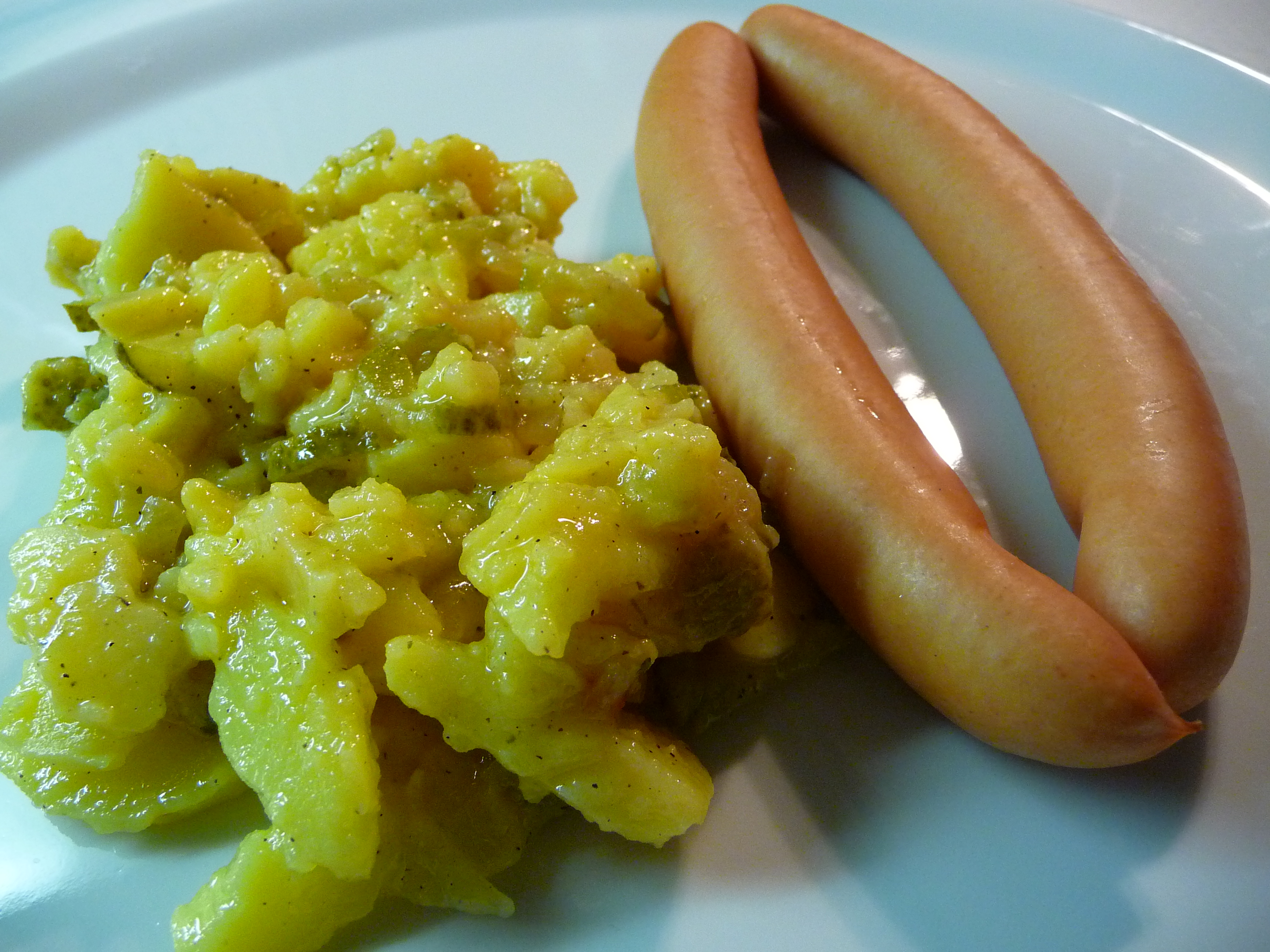 Potato salad and wiener